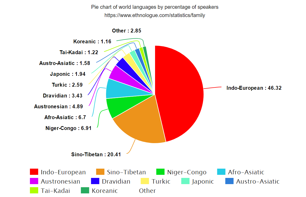 A pie chart showing the percentage of speakers each language family has. All information taken from